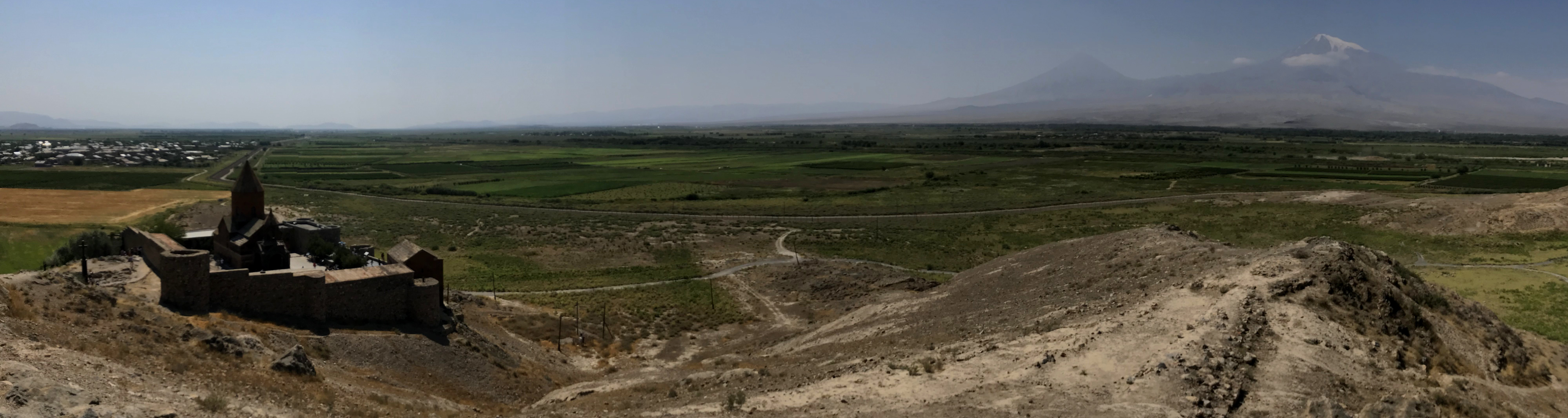 Panorama of Khor Virap with Ararat in the Background